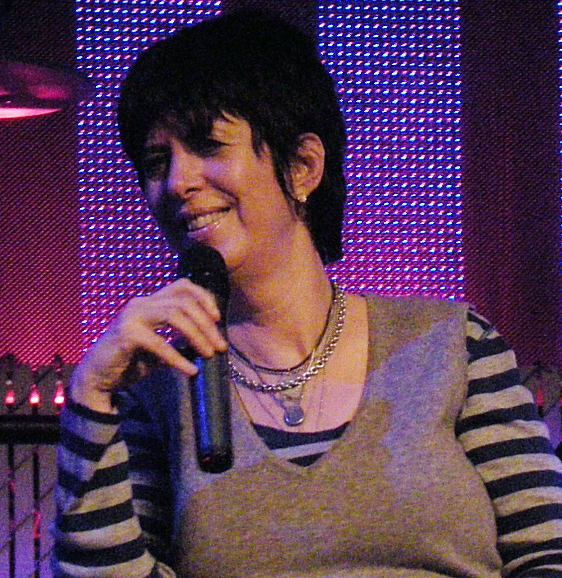 Diane Warren appearing at 2009 Pop Conference, Experience Music Project, Seattle, Washington.